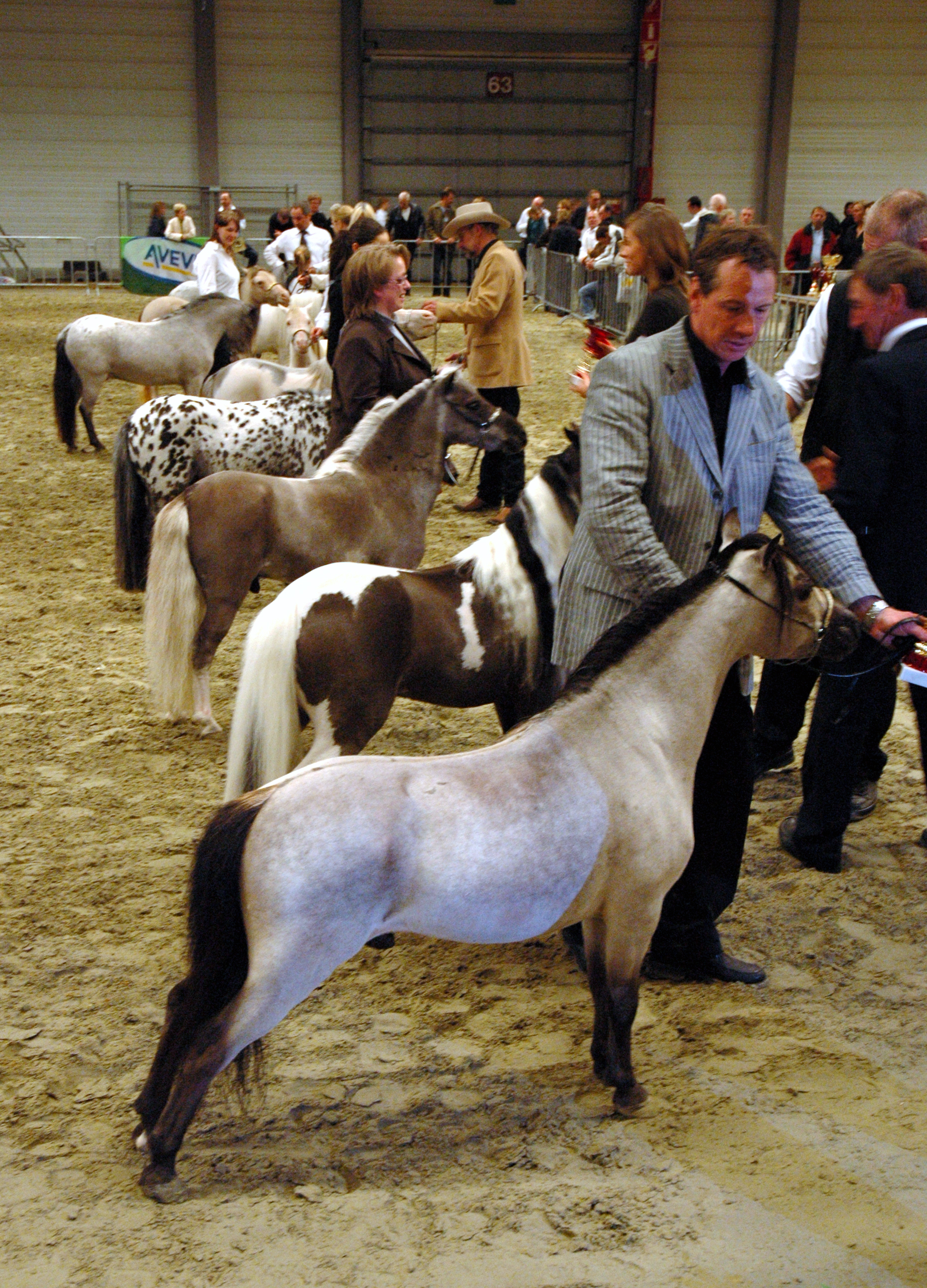 From set Agriflanders 2007 - miniatuurpaard (miniature horse show in 2007)